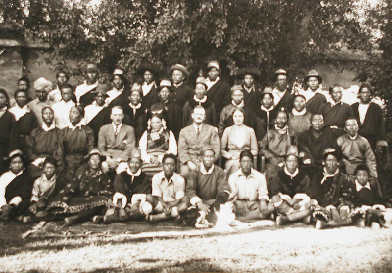 Our entourage at Dekyi-lingka 20.9.33